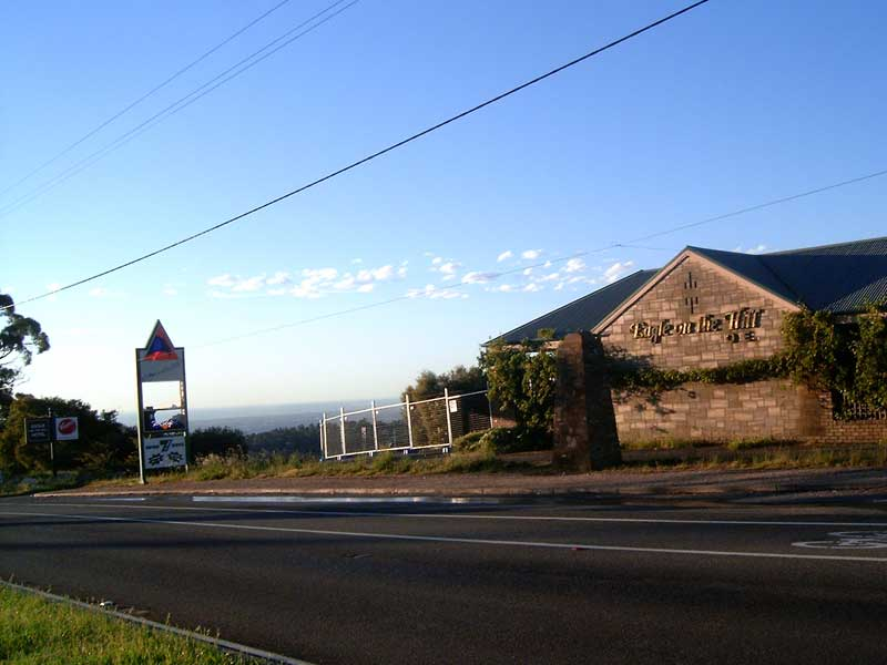 The former Eagle on the Hill Hotel, now a private residence